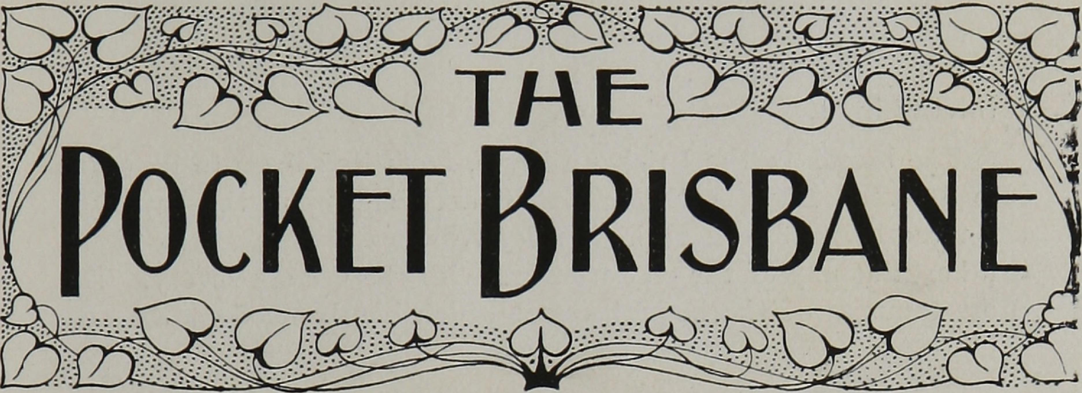 Title: The Pocket Brisbane 1915 Year: 1915 (1910s) Authors: P.J Nally Queensland Government Intelligence and Tourist Bureau. Subjects: State Library of Queensland Queensland Brisbane City of Brisbane travel tourist guide handbook Publisher: View Book Page: Pocket Brisbane 1915#page/n6/mode/1up Book Viewer About This Book: Catalog Entry View All Images: All Images From Book Click here to Pocket Brisbane 1915#page/n6/mode/1up view book online to see this illustration in context in a browseable online version of this book. Text Appearing Before Image: VIEWS IN THE BRISBANE BOTANIC GARDENS. ♦ Text Appearing After Image: '